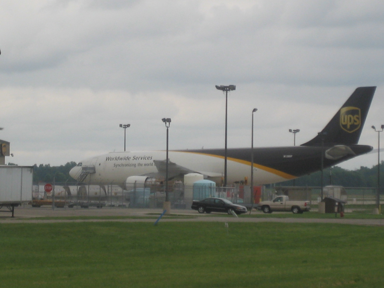 Capital Region International Airport (LAN), Lansing, Michigan. A UPS Airlines cargo jet Airbus A300F4-600 on freight ramp. View is from across Port Lansing Road. June 16, 2010